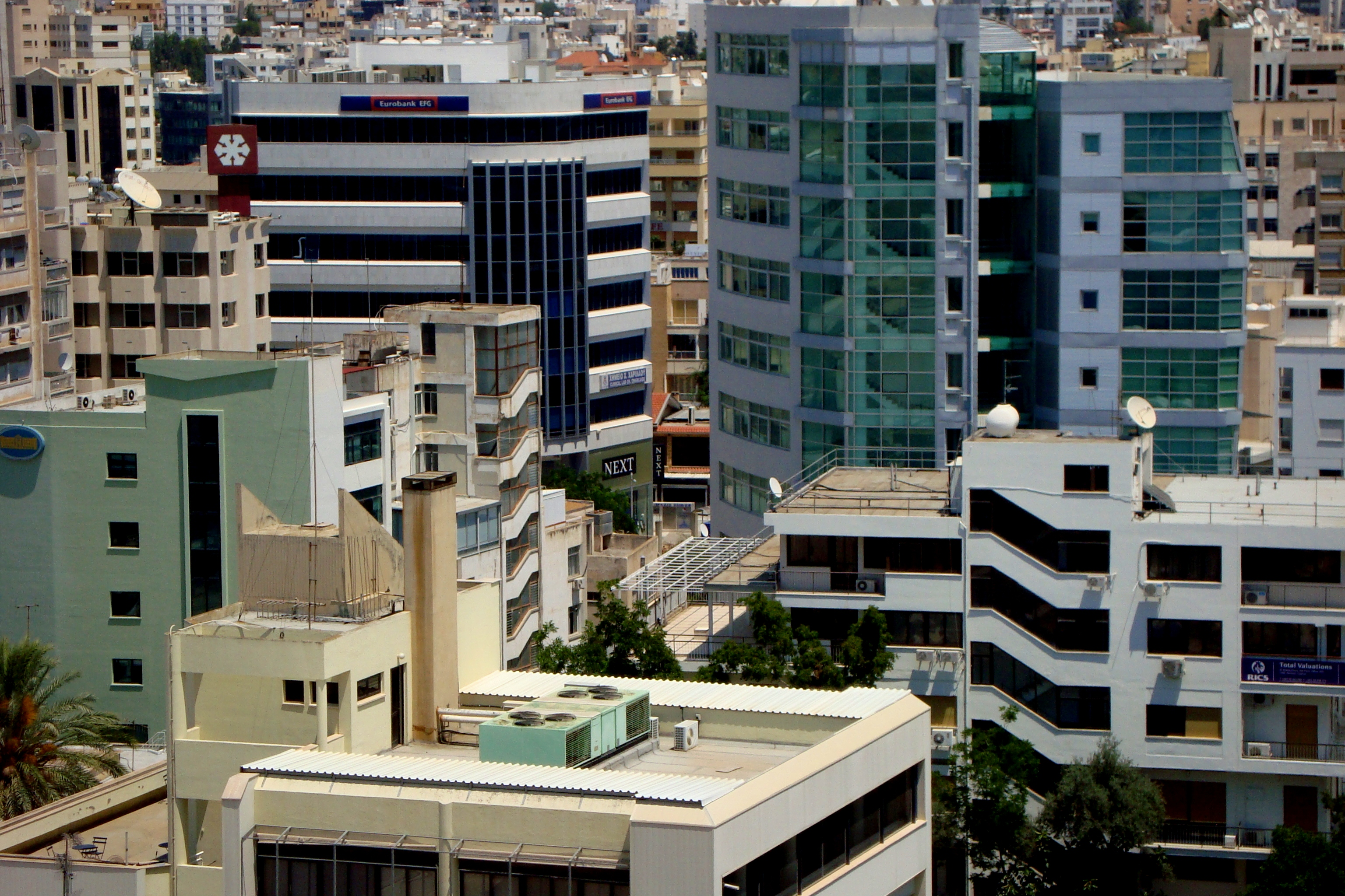 view of Nicosia the capital of Republic of Cyprus